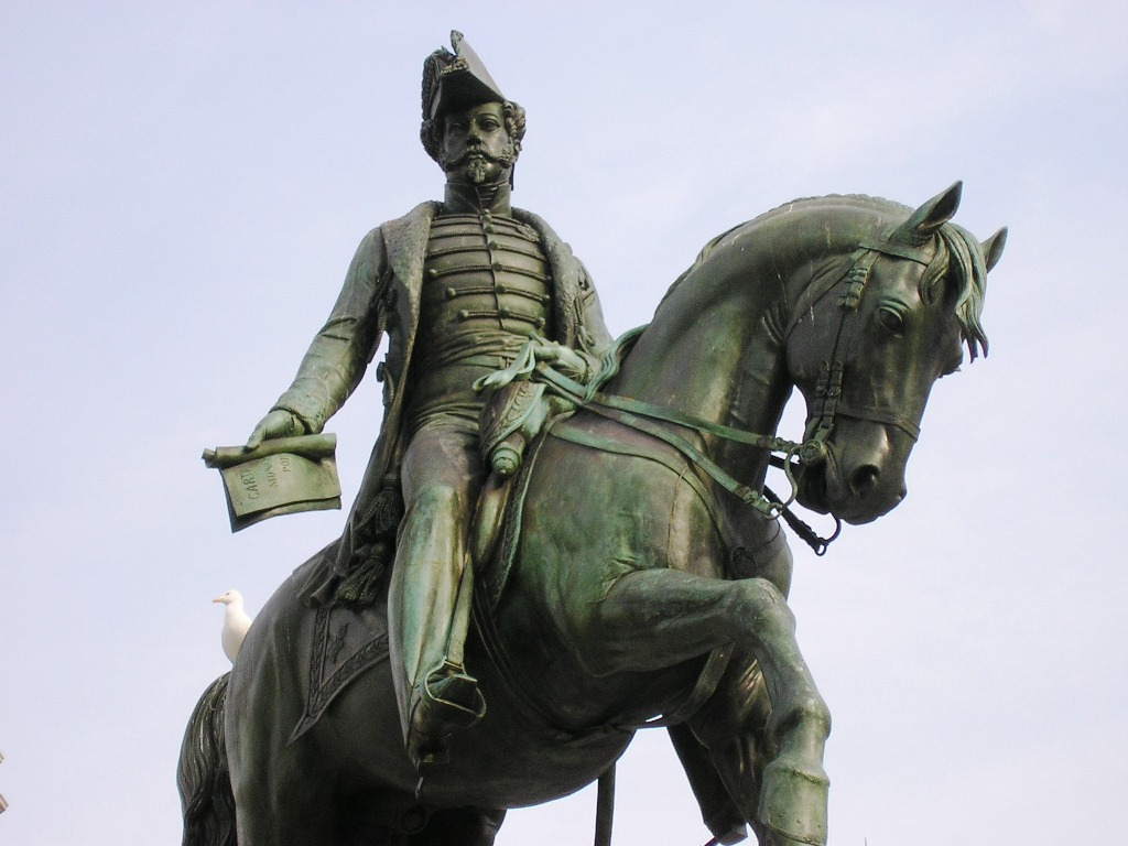 King Pedro IV of Portugal monument in Porto, Portugal. by (Célestin Anatole Calmels - 1866). Author: Manuel de Sousa.